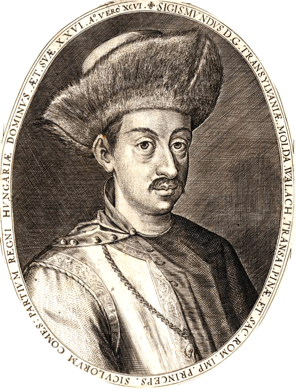 Sigismund Báthory, Prince of Transilvania (1573-1613)